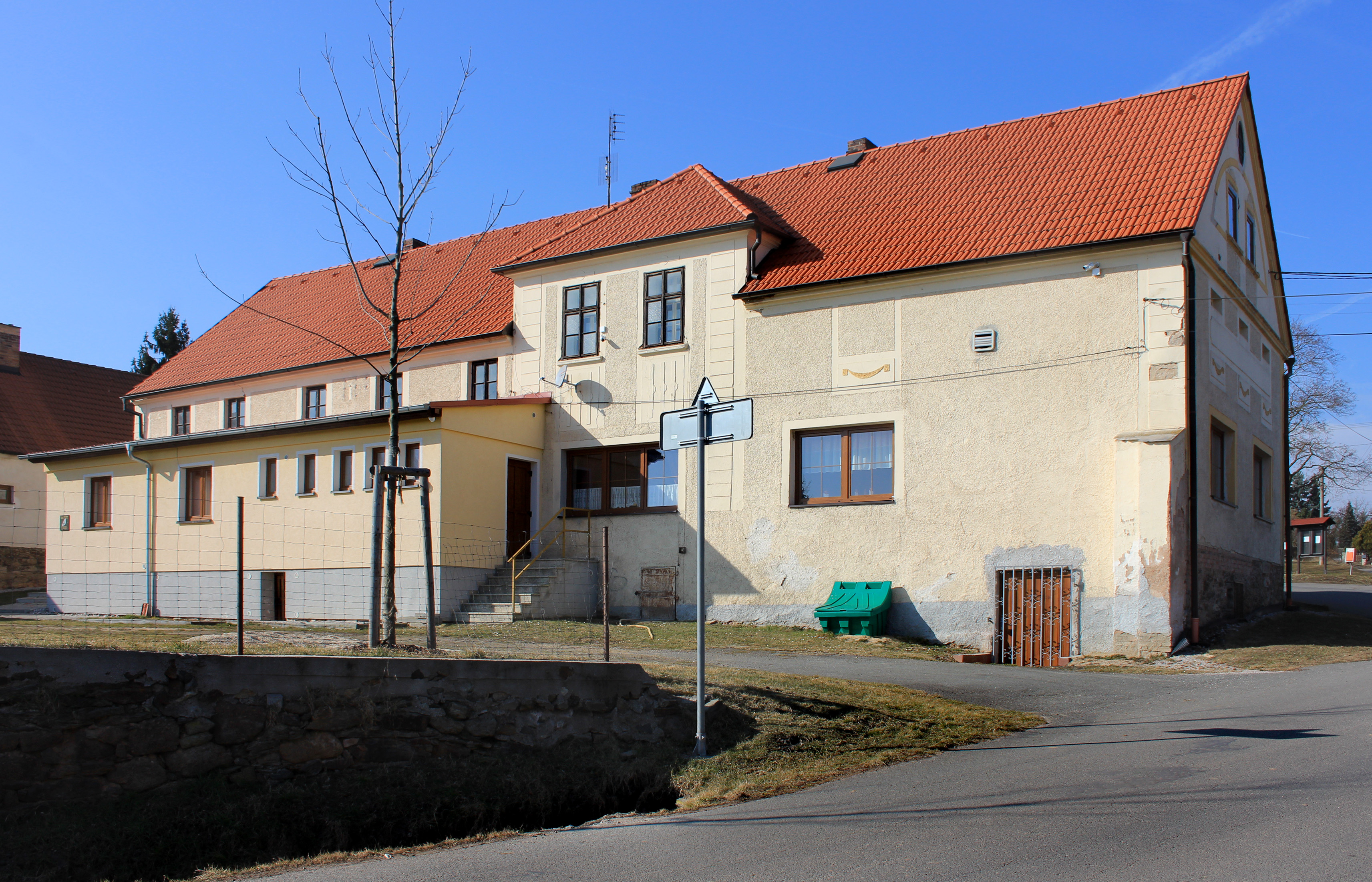 Municipal office in Hněvnice, Czech Republic.